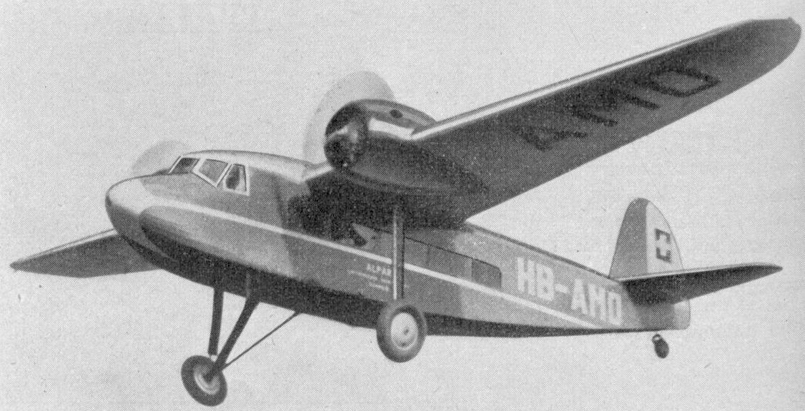 Koolhoven FK-50 photo from Le Pontential Aérien Mondial 1936